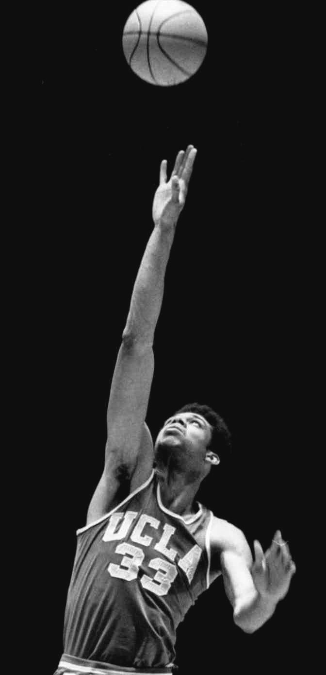 Basketball player Kareem Abdul-Jabbar (then known as Lew Alcindor)